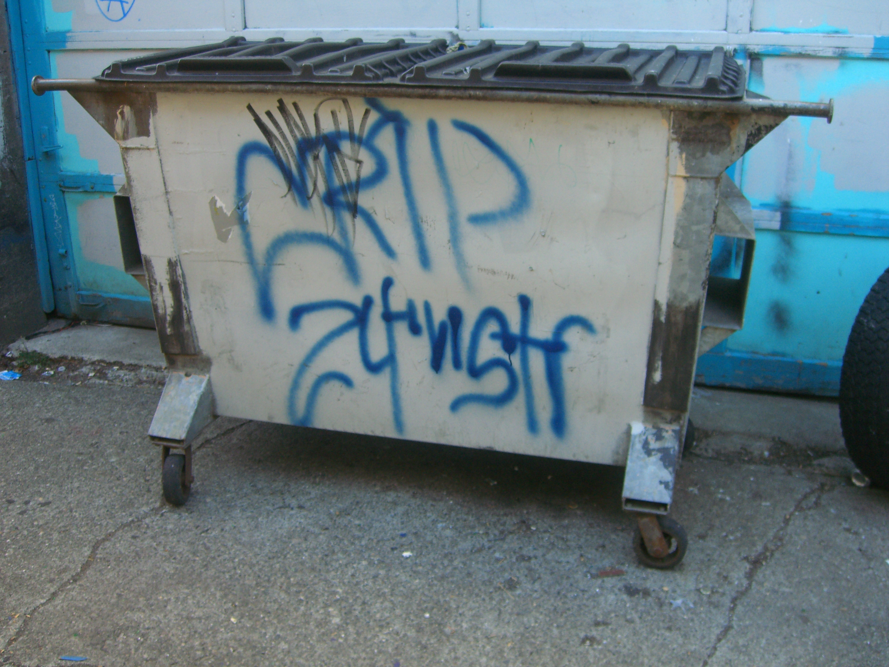 24th St Crip